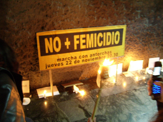 Candle memorial to protest violence against women. A sign above the candles reads: No + Femicidio (No femicide). Chile, 2007